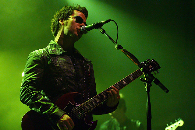 Kelly Jones of the Stereophonics